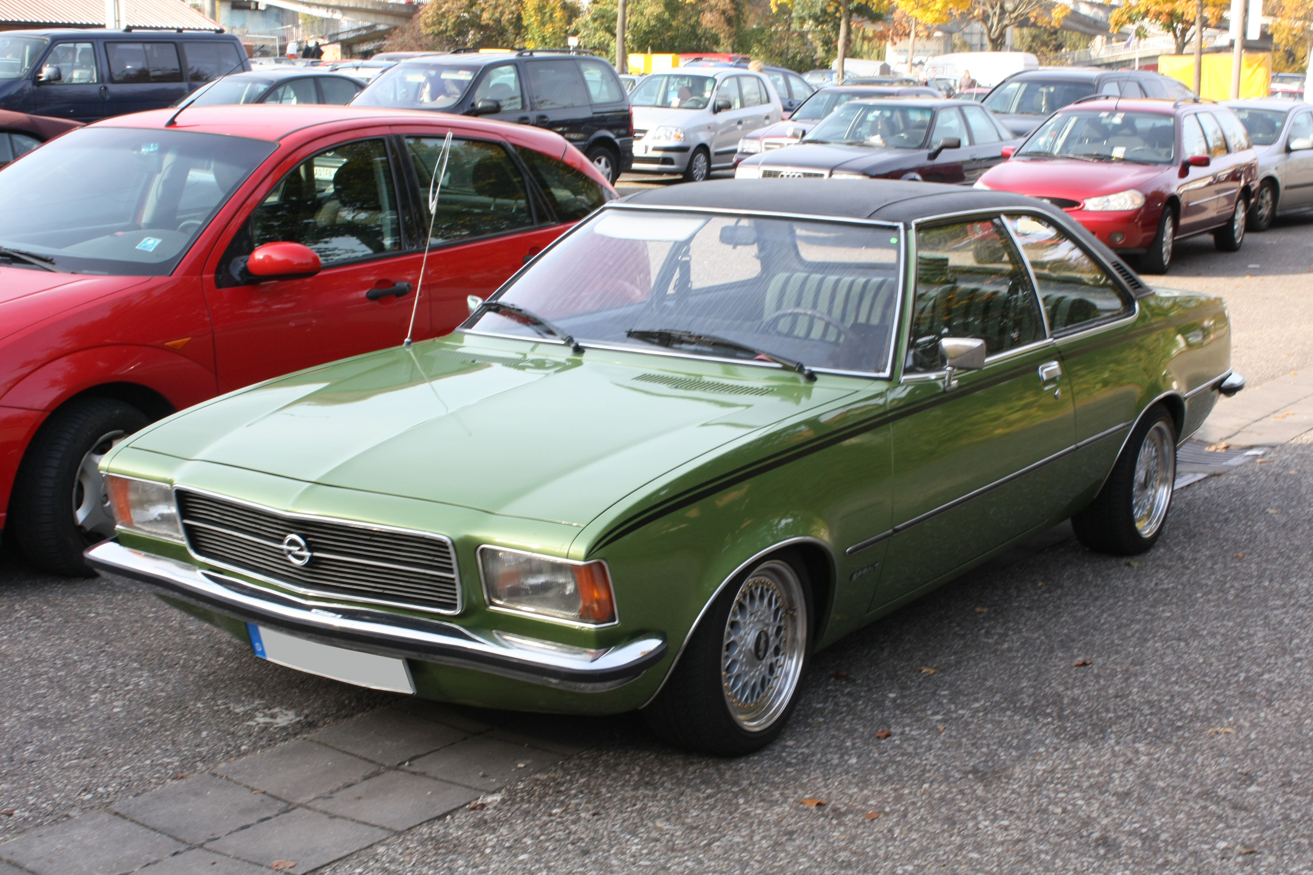 Opel Rekord D 1900 Coupé